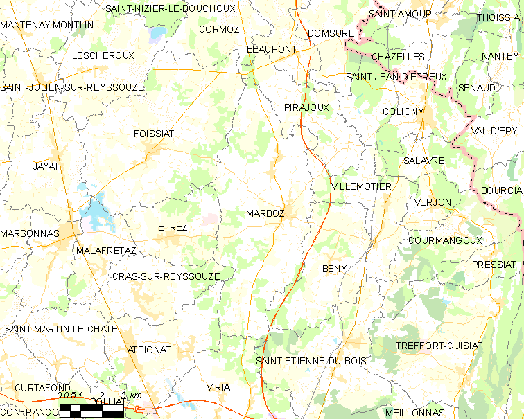 Map of French commune: Marboz Map commune FR insee code 01232.png